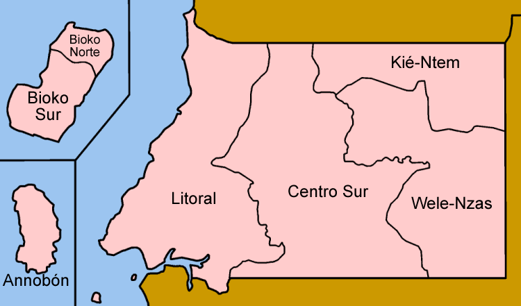 Map of the provinces of Equatorial Guinea, named. Made by User:Golbez.